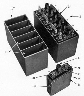 Mark 18 torpedo battery monoblock container. 1-Monoblock battery container. 2-Copper cell connector. 3-Assembled 6-cell battery unit. 4-Vent plug. 5-Negative cell terminal. 6-Plug. 7-Assembled cell group. 8-Outer negative plate. 9-Latex plate separator. 10-Positive cell terminal. 11-Individual cell compartments.